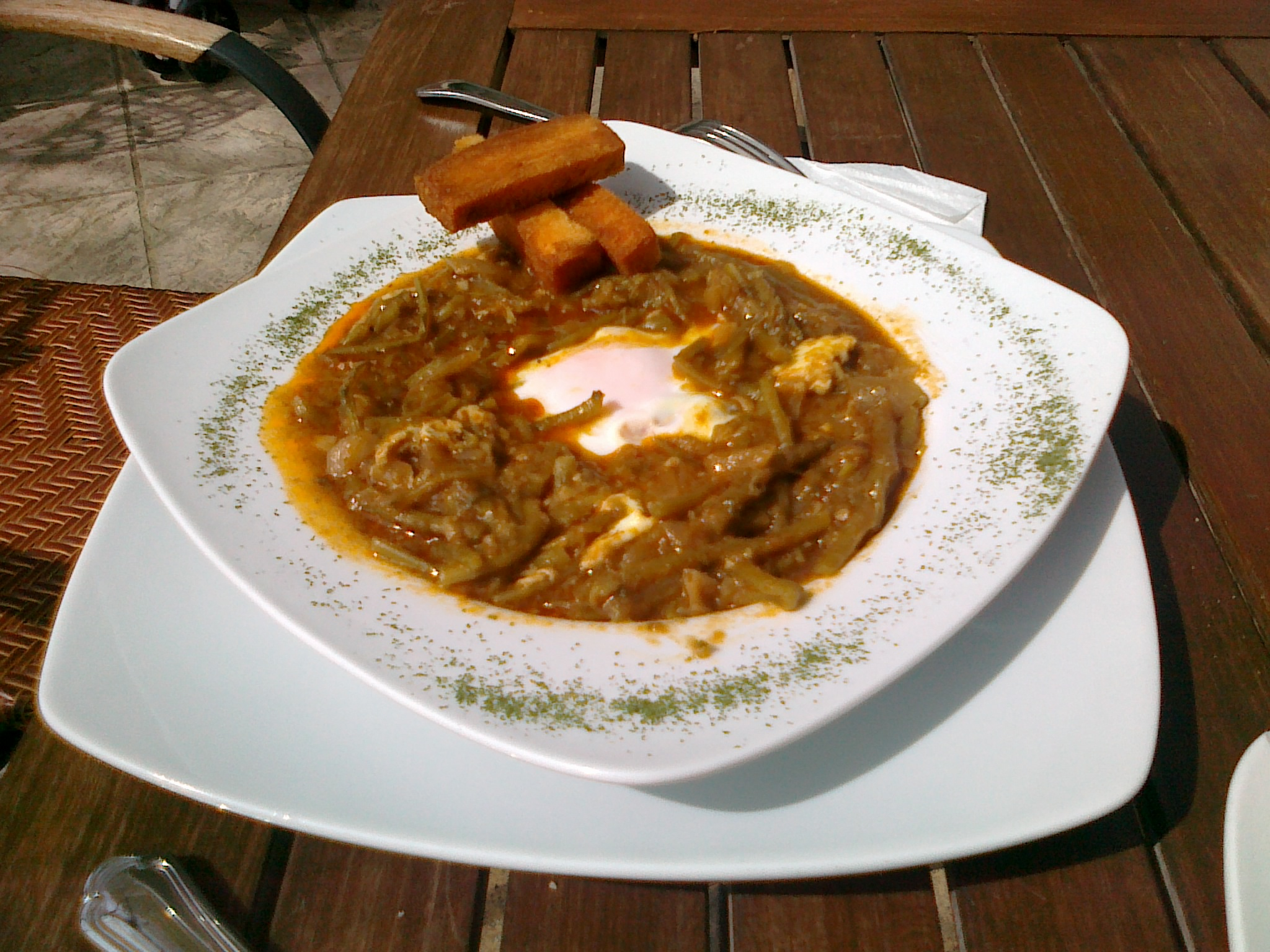 Scrambled ewggs with scolymus hispanicus